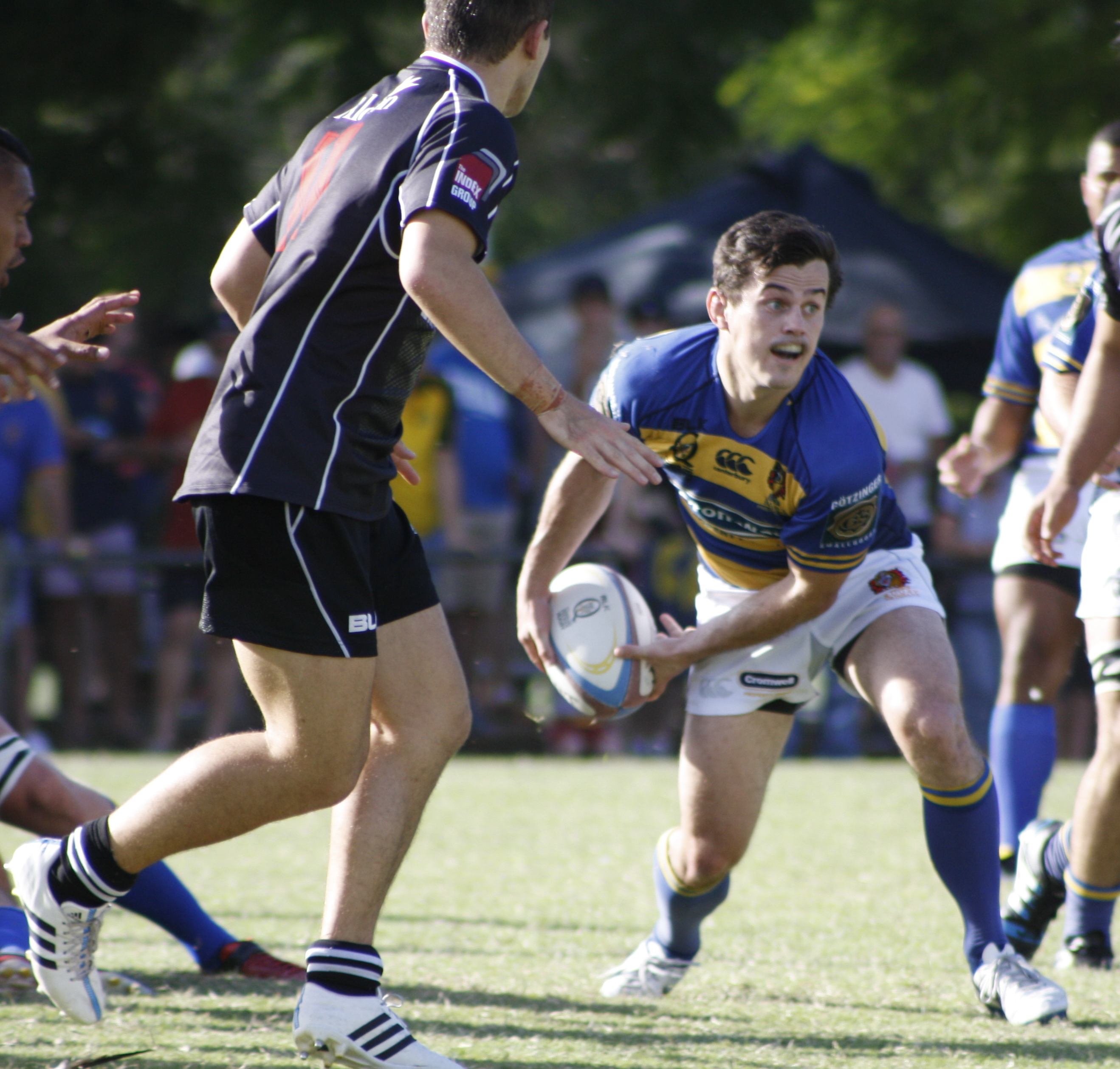 Easts player passes. Easts vs Souths rugby union Bottomley Park April 11 2015